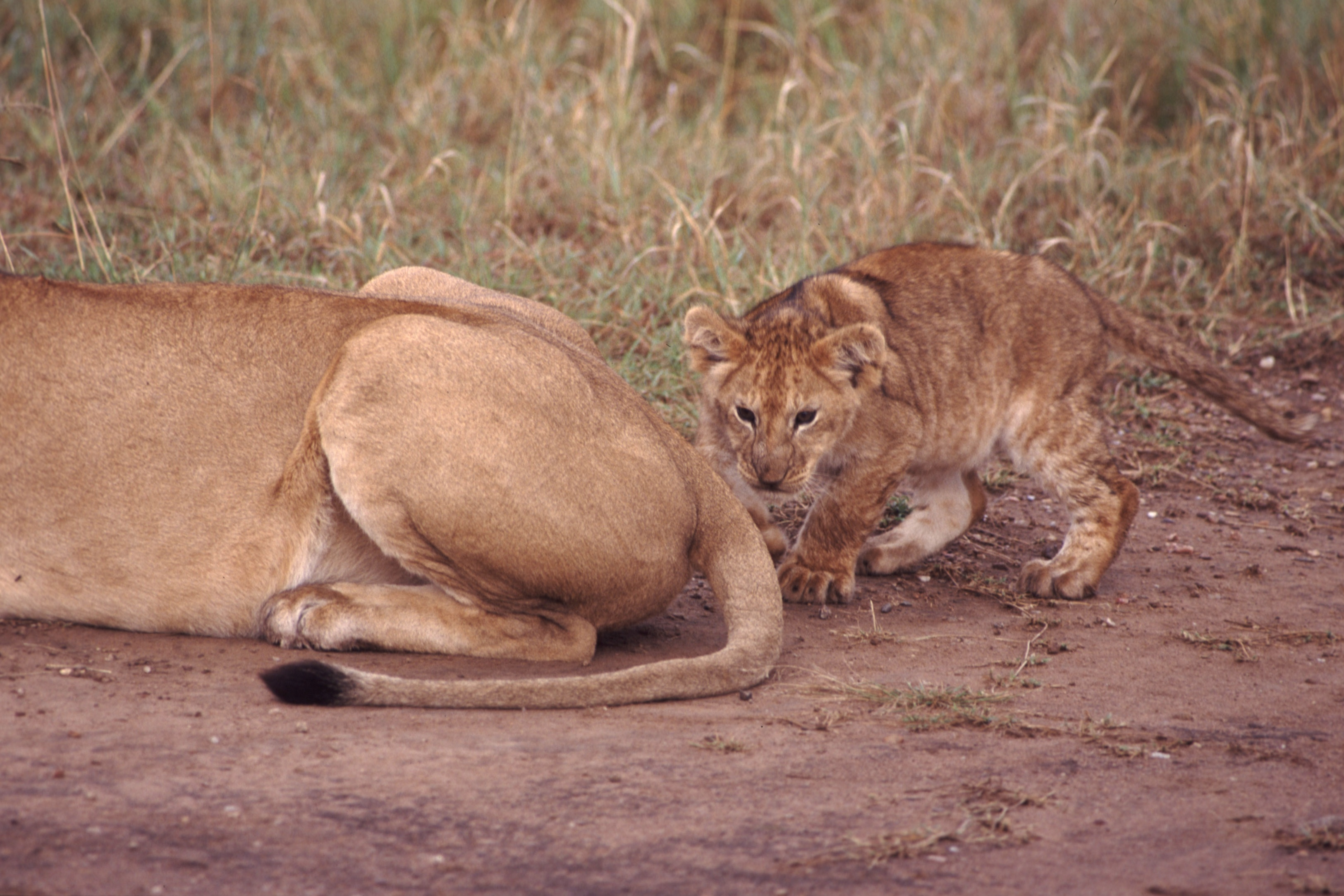 Lion cub stalking mother's tail. Taken on safari in Kenya on slide film. Scanned in 2006.